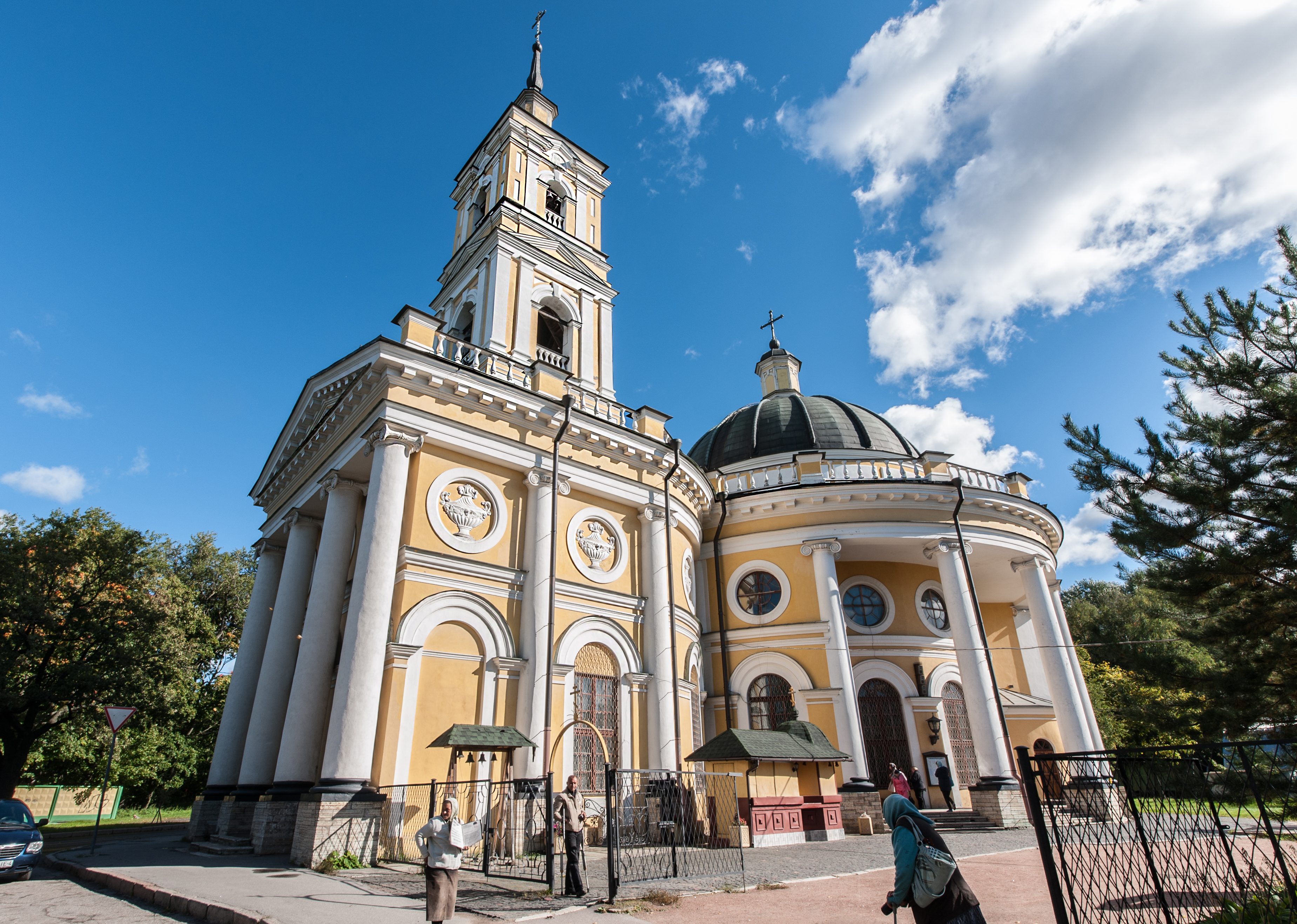 Church of St. Elijah the Prophet